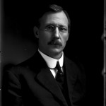 Joseph W. Bettendorf co-founded the Bettendorf Axel Company with his brother William P. Bettendorf. The city of Bettendorf, Iowa is named after the brothers.